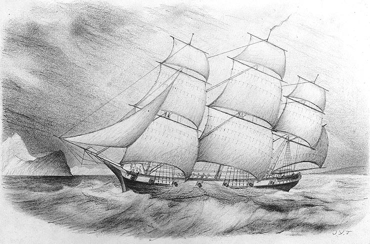 Original caption read: Photo # NH 325 USS Decatur "Beating round 'Cape Freward': Straits of Magellan, Dec: 1854"